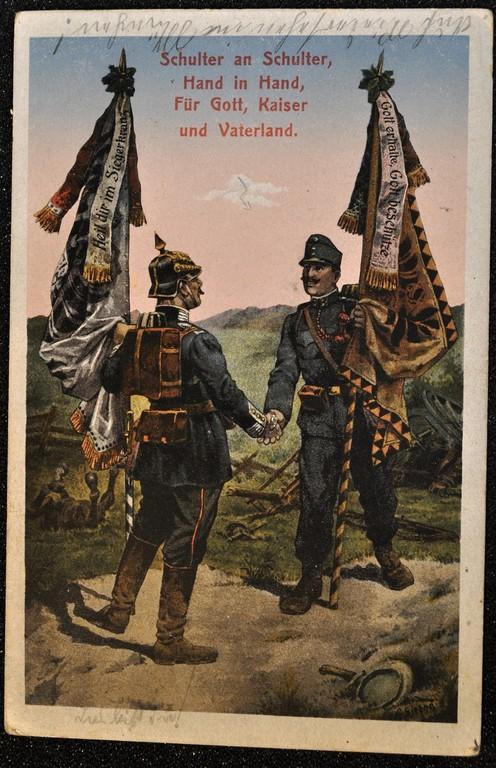 Labeled Postcard from Miss Nördingen to her fiancé John Ostermeier and returns. He served in the first Army Corps, 1st Division, Second Infantry Regiment.